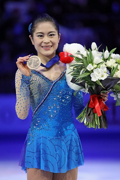 Photos – World Championships 2018 – Ladies (Medalists)